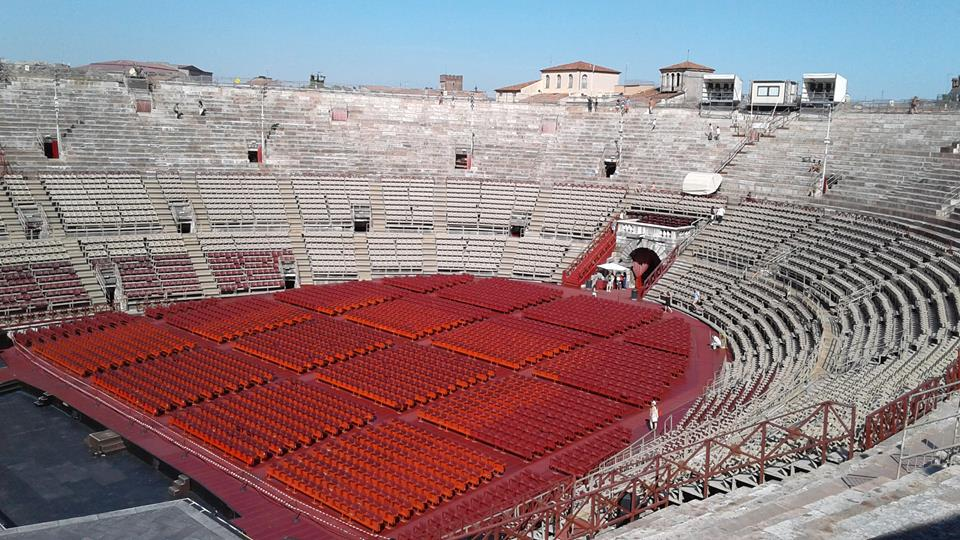 A photograph of the Verona Arena, taken by myself on July 18, 2017.